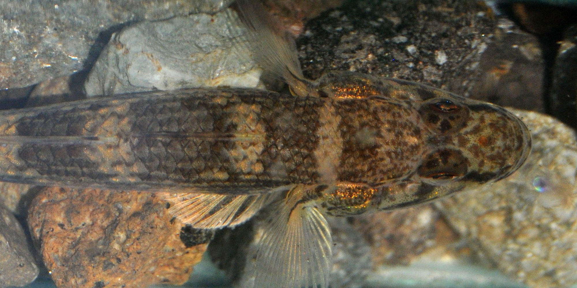 Tank goby, Glossogobius giuris, ca 52 mm SL. Head close up. From Banyumas, Central Java, Indonesia.